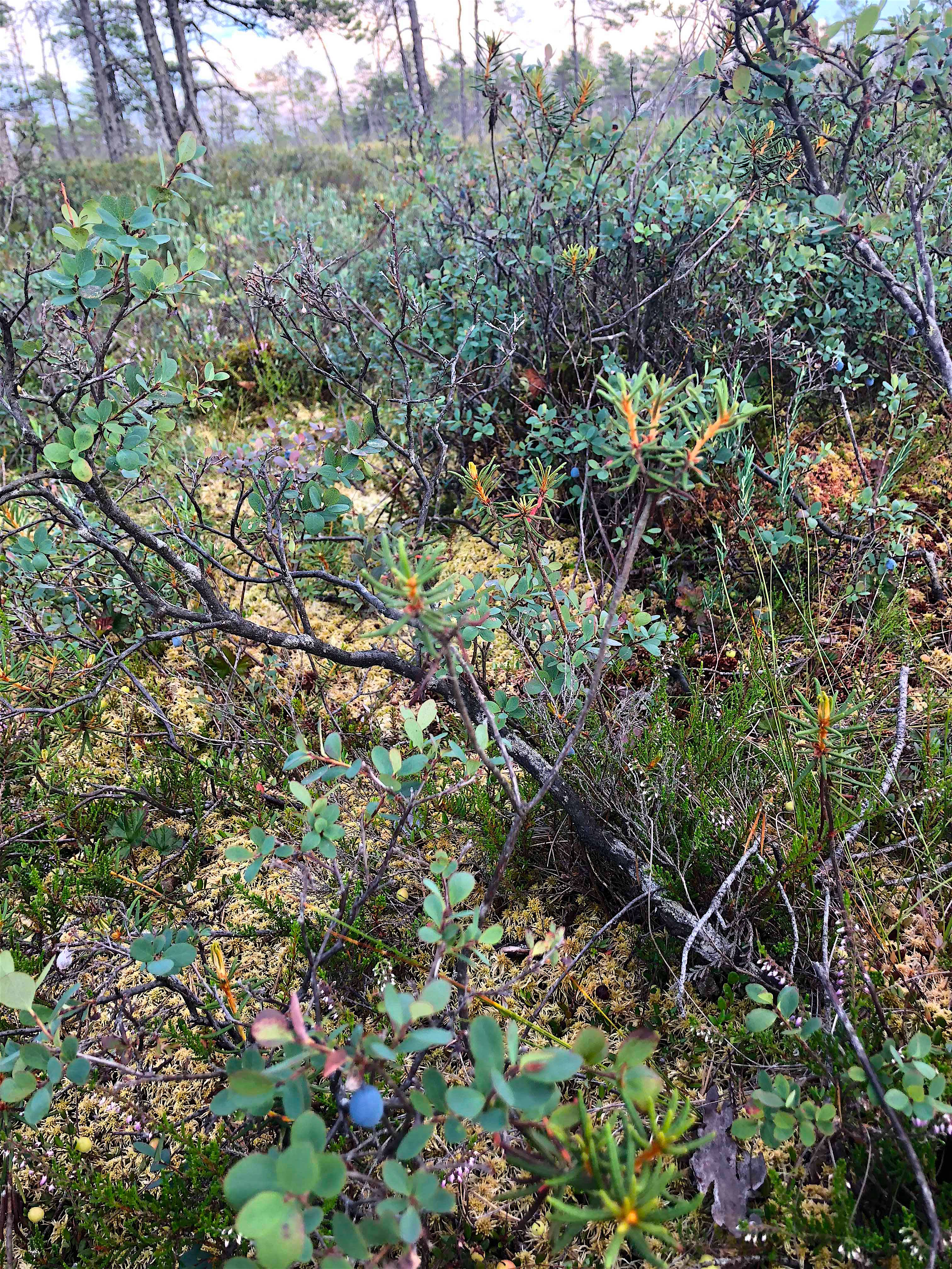 Wild Blueberries in Kemeri National Park